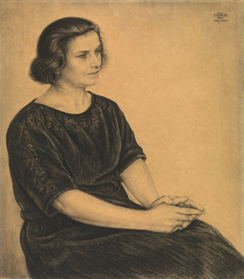 Portrait of Céline Dangotte (1883-1975)